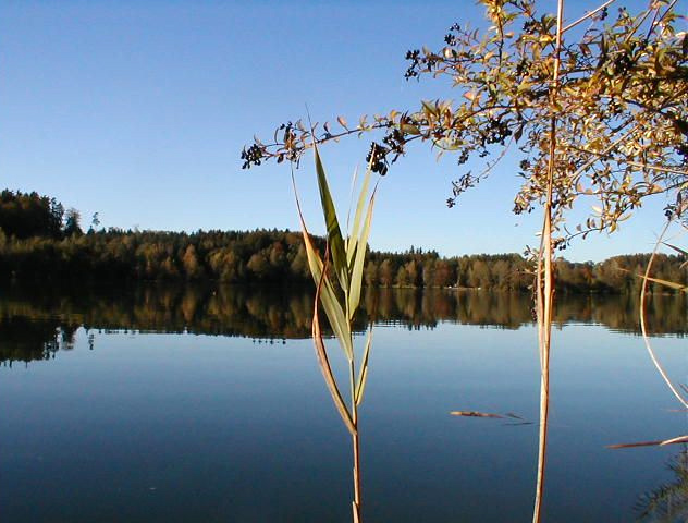 Lake Hoellerersee in Upper Austria Photograph by Gakuro